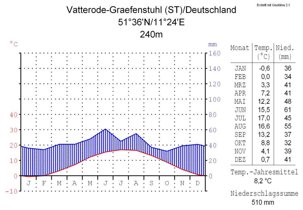 climate chart in the format by Walter and Lieth, metric, °Celsisus and millimeters, made with Geoklima 2.1